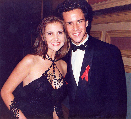 Kellie Martin at the 45th Emmy Awards 9/19/93, with Scott Weinger.